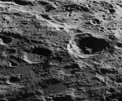 Oblique view of De Forest (right), and De Forest N (left), on the far side of the moon, facing west.